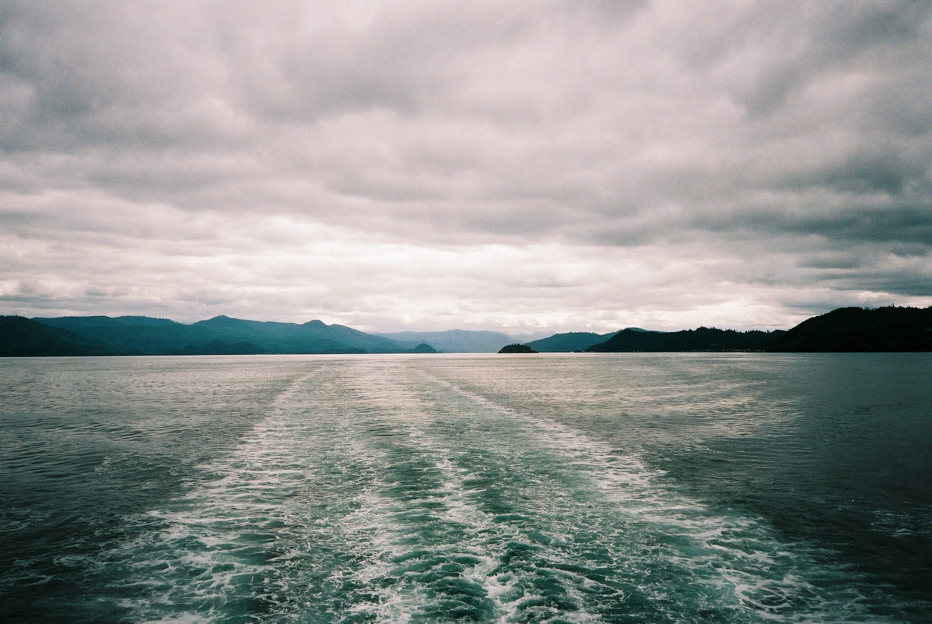 Leaving Skidegate Inlet in Haida Gwaii, British Columbia, aboard BC Ferries M/V Queen of Prince Rupert